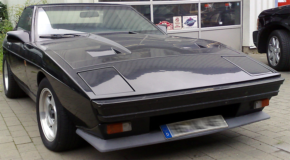 TVR TVR Tasmin 280i Series 2